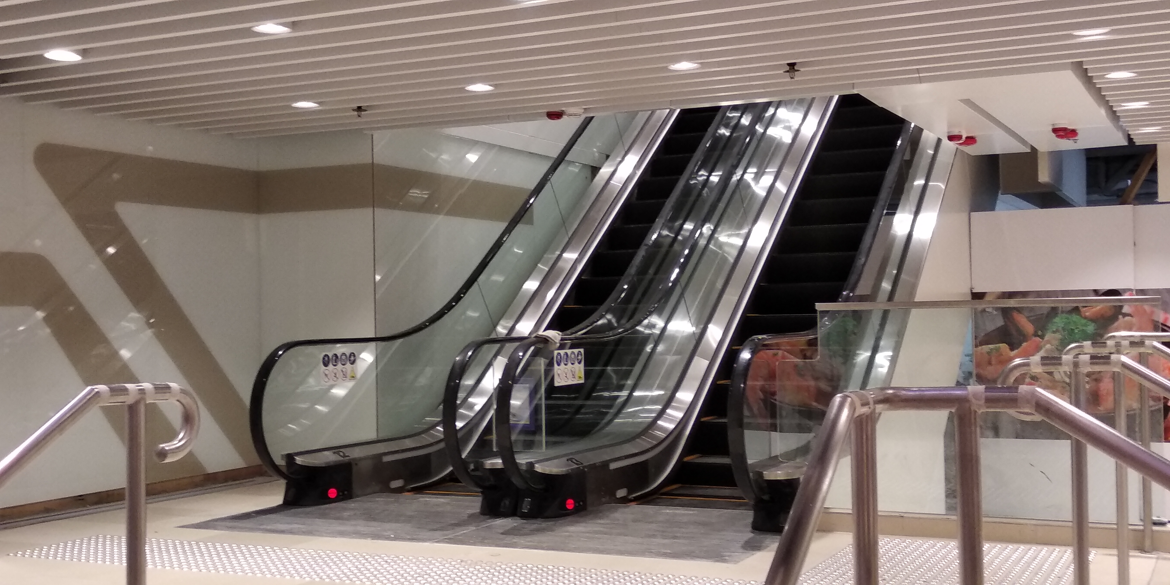 Cheung Fat Estate Shopping Centre Escalator.